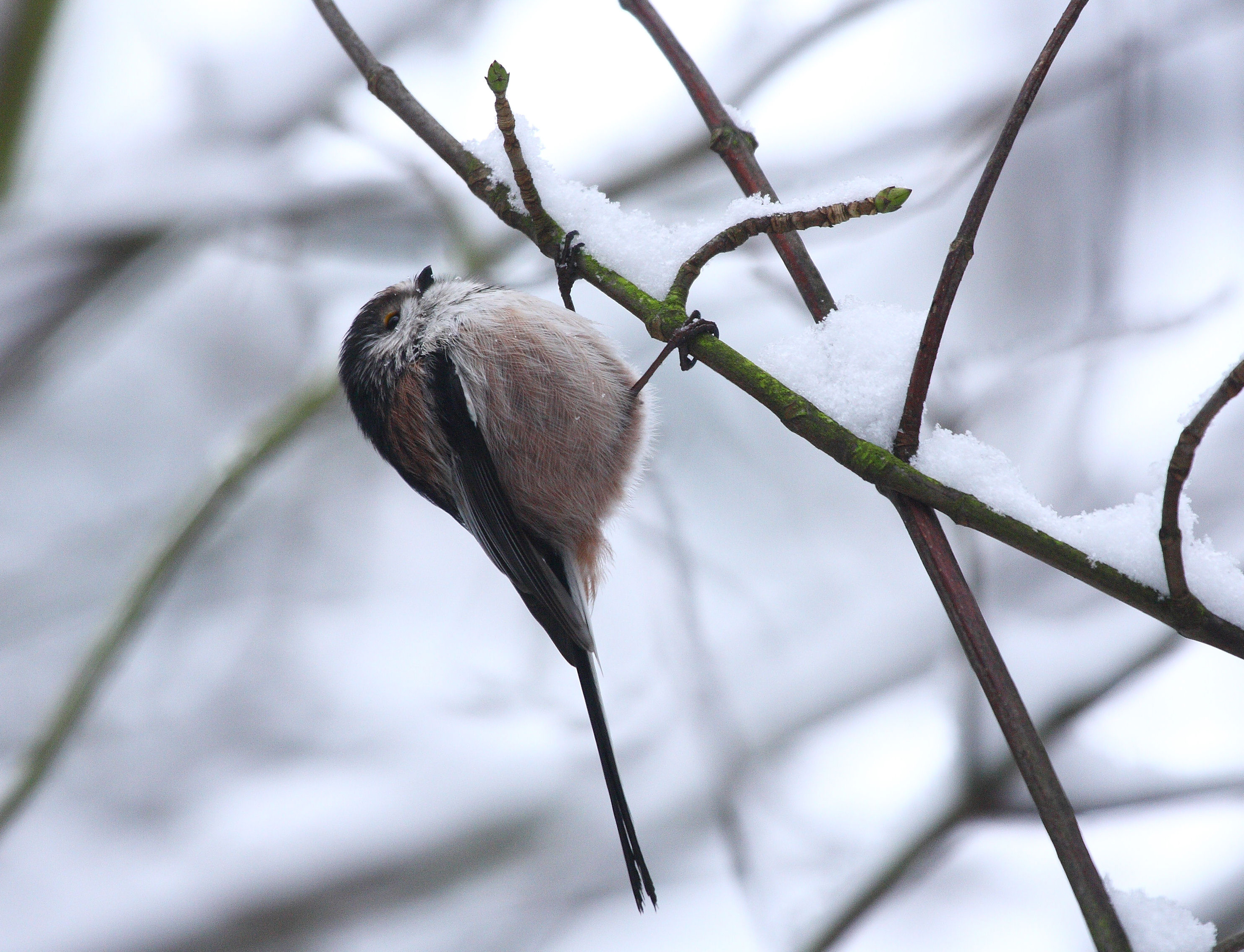 Long-tailed Tit Aegithalos caudatus, Apley, Shropshire, England